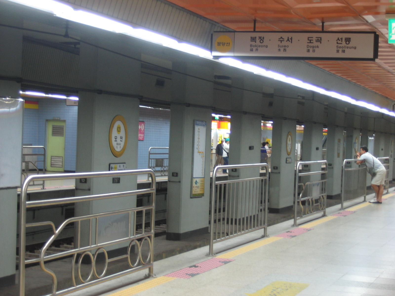 Korea_SeoulSubway_Bundang_Line_Moran_Station Passenger Platform